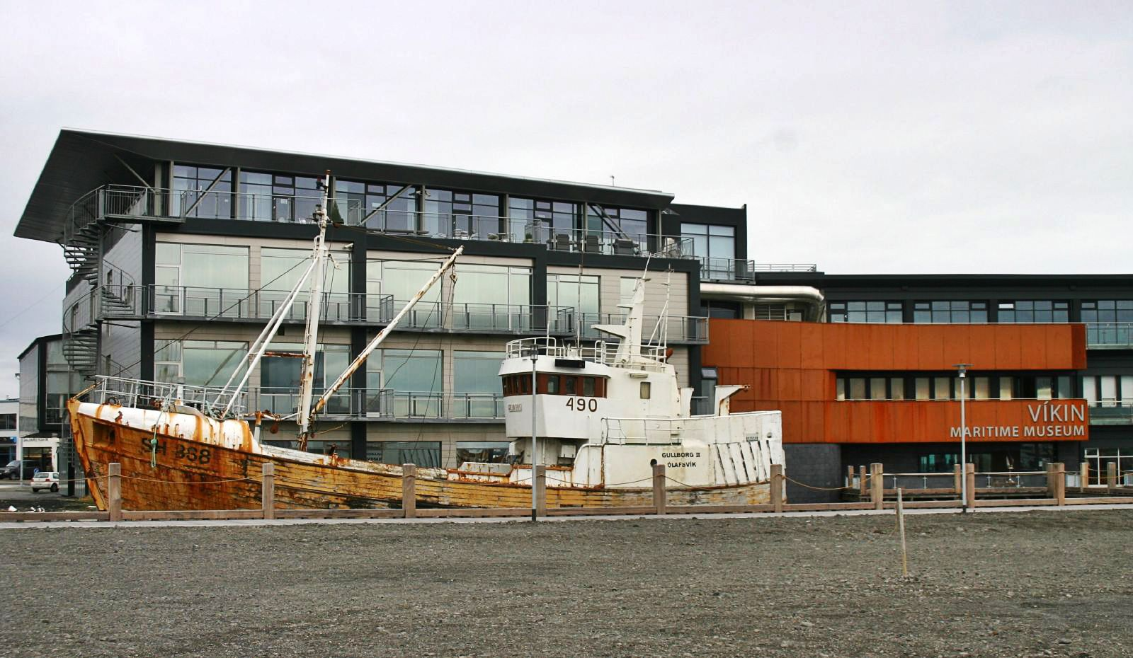 Vikin Maritime Museum, Reykjavik, Iceland